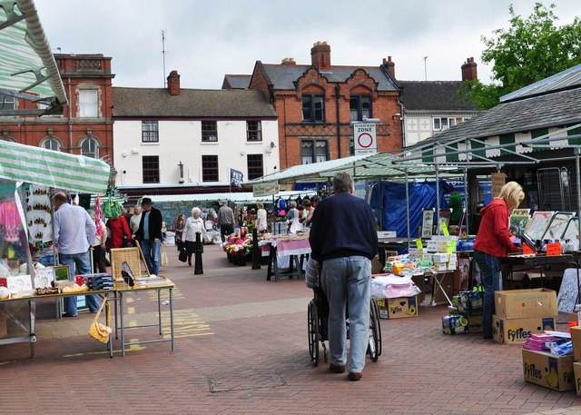 The Market Square - Burton-on-Trent A very busy popular market. Photographed on a Thursday morning.